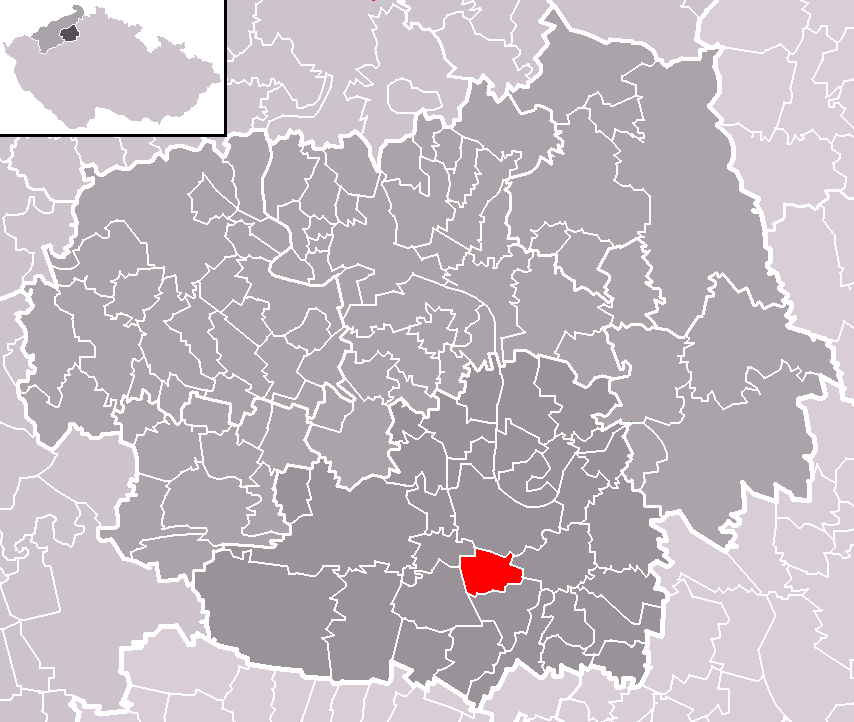 Location of Kleneč municipality within Litoměřice District and administrative area of Roudnice nad Labem as a Municipality with Extended Competence.